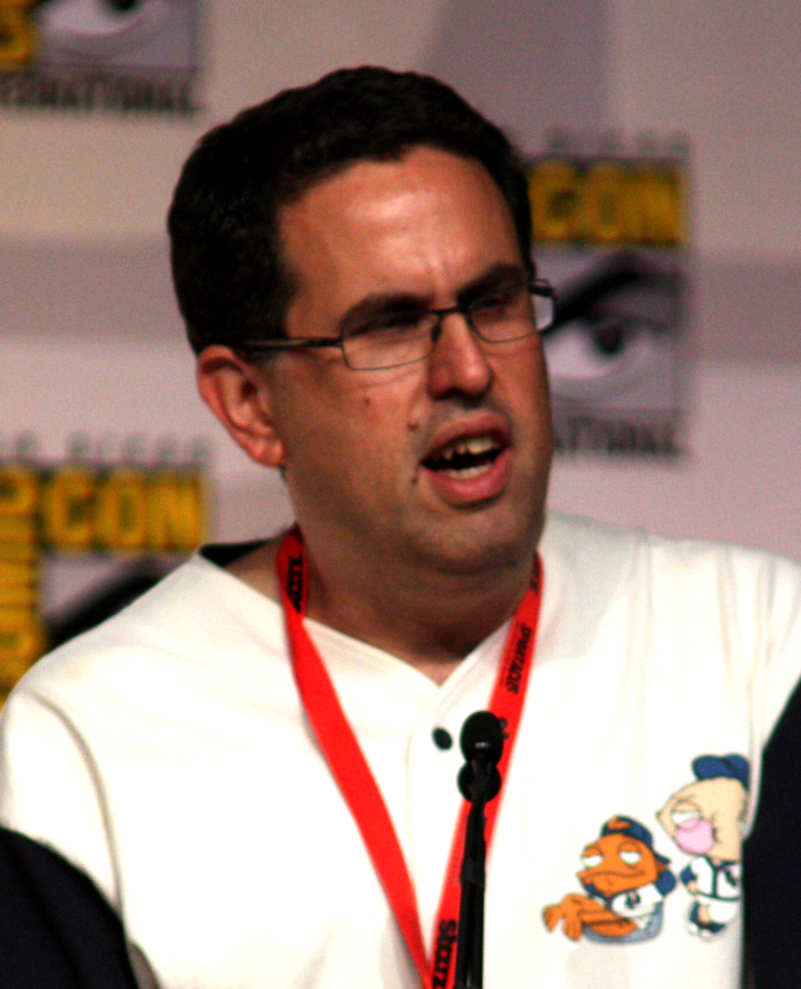 David A. Goodman at the 2009 Comic Con in San Diego.